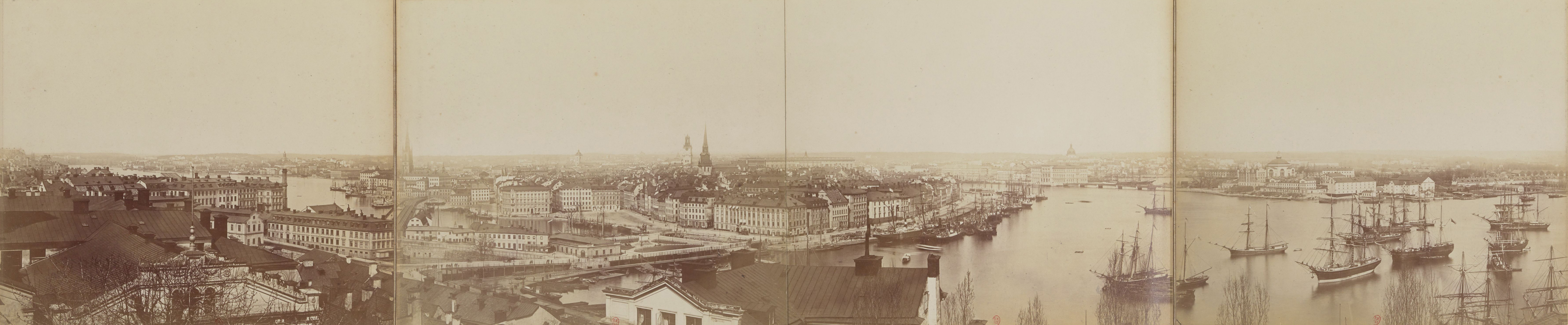 Panoramic image of Stockholm